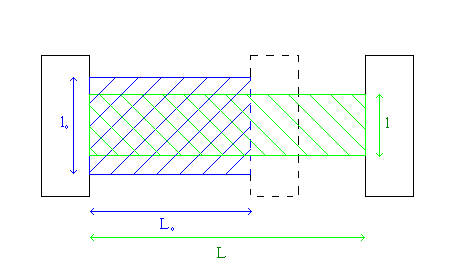 This should be used to illustrate the definition of the Poisson's ratio. Created by Blinking Spirit.